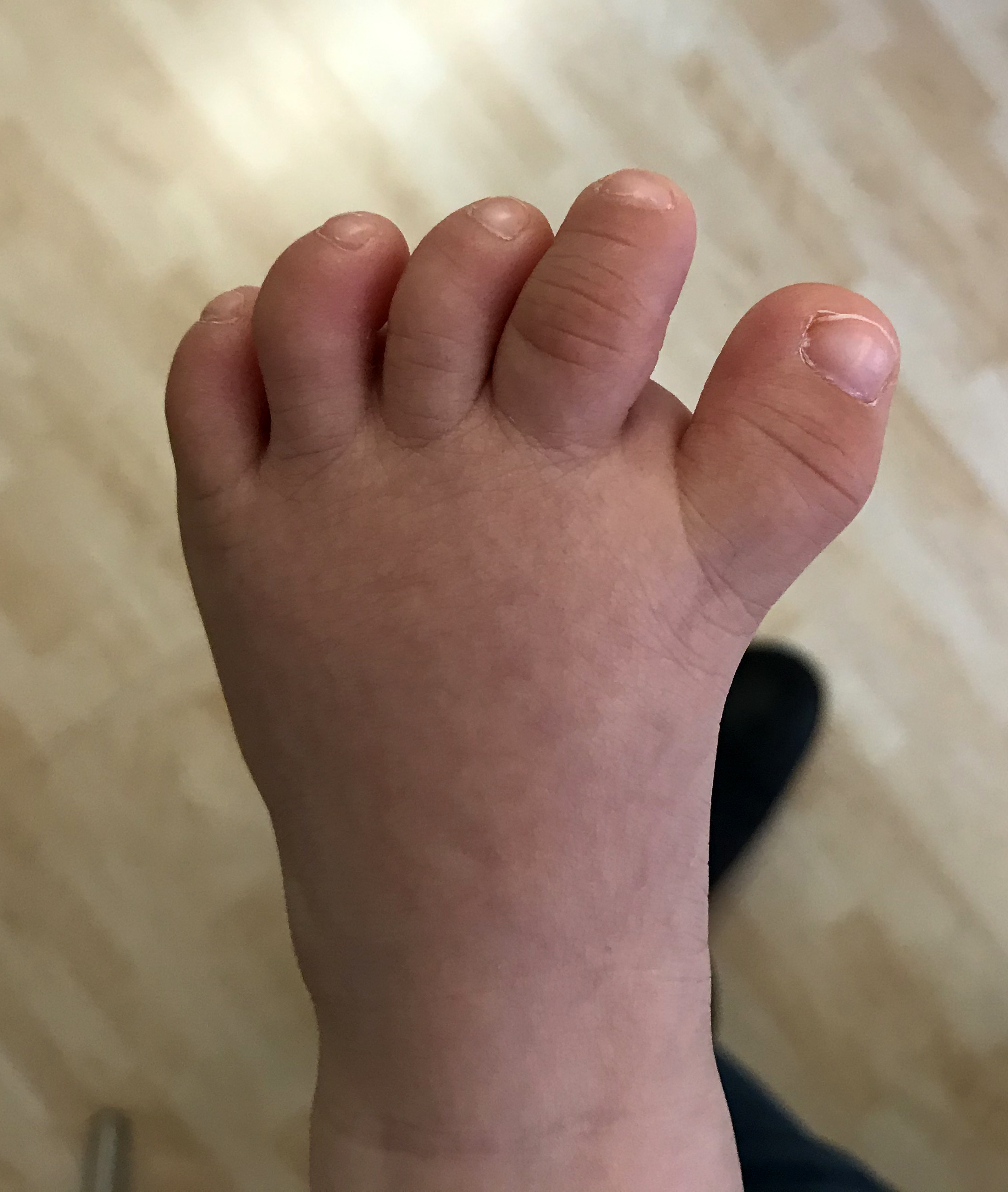 Congenital hallux varus, in a 10 months old girl.